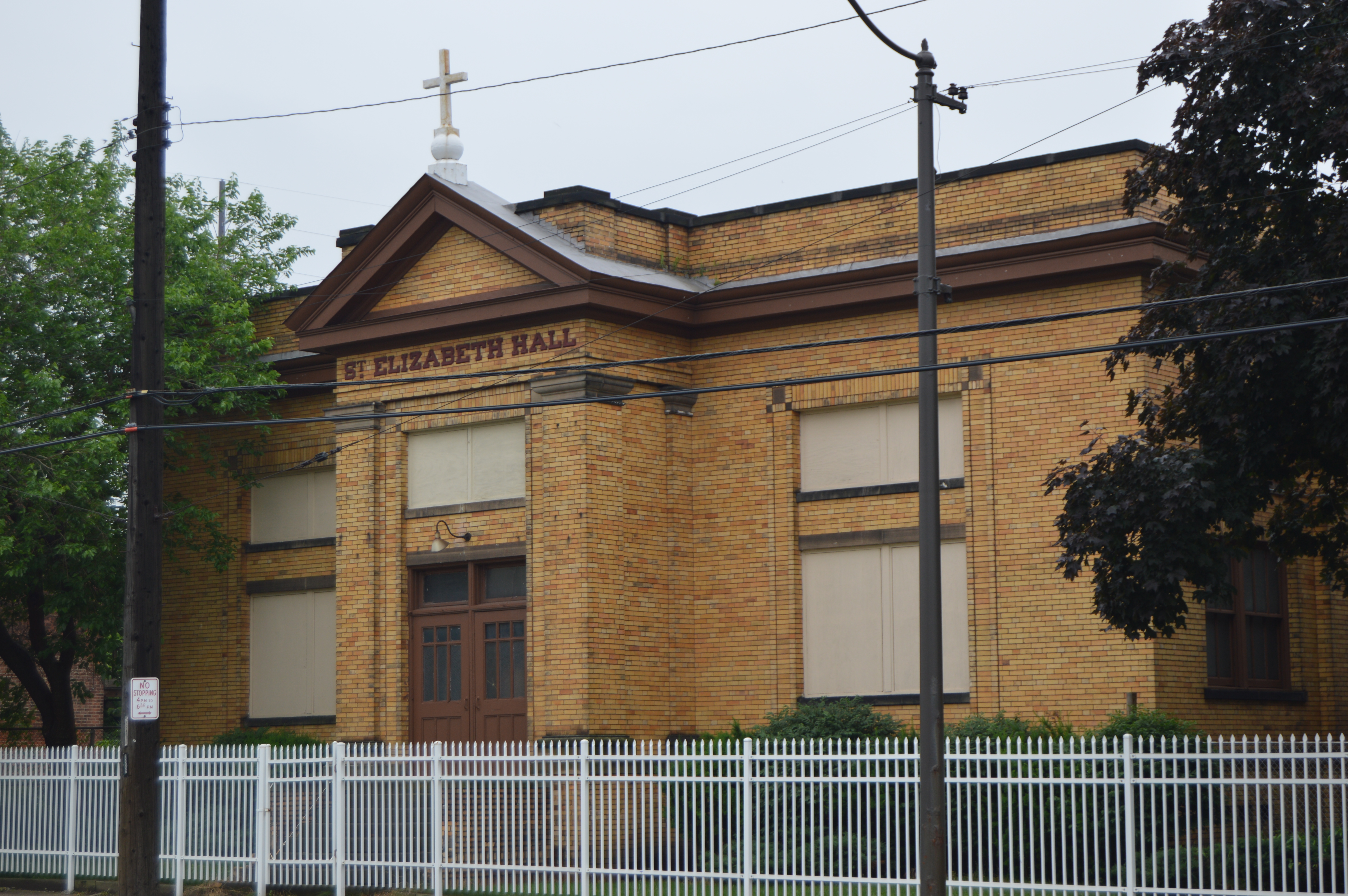 Front of St. Elizabeth's parish hall, located adjacent to St. Elizabeth's Catholic Church at 9016 Buckeye Road in Cleveland, Ohio, United States. Before white flight and significant urban decay, the church was the center of life for the heavily Hungarian neighborhood, and the parish hall was the primary community center.